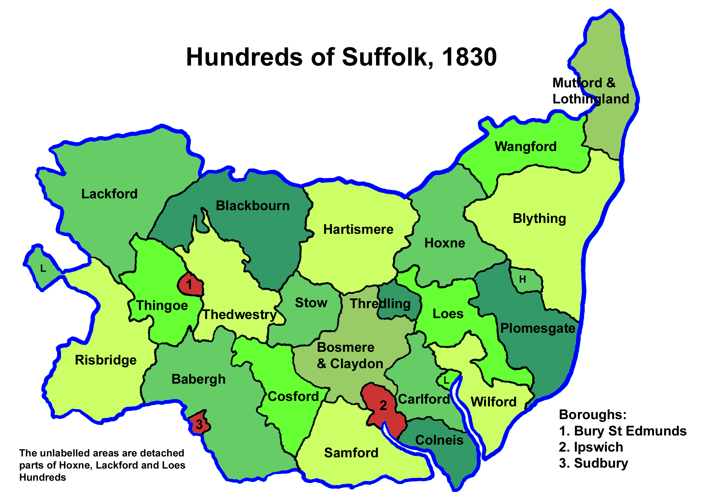 The Hundreds of Suffolk, England, as of 1830.